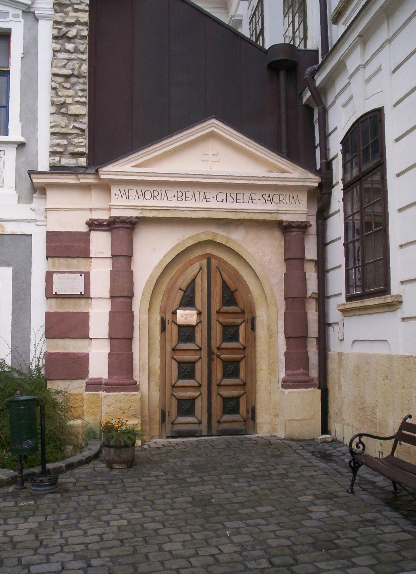 Description: The Gisela Chapel in Veszprém